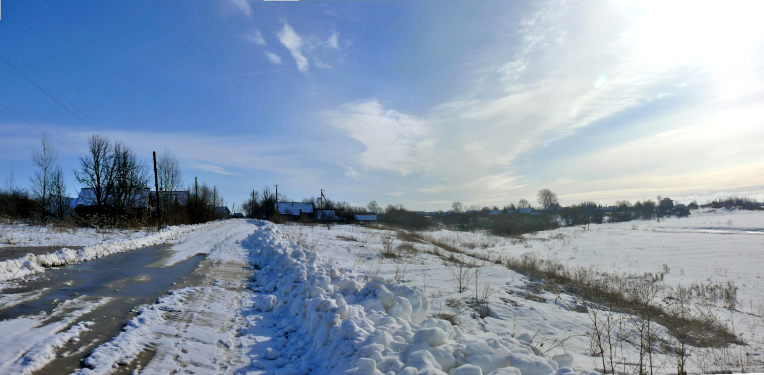 Retlio village. Staraya Russa district, Novgorod oblast, Russia